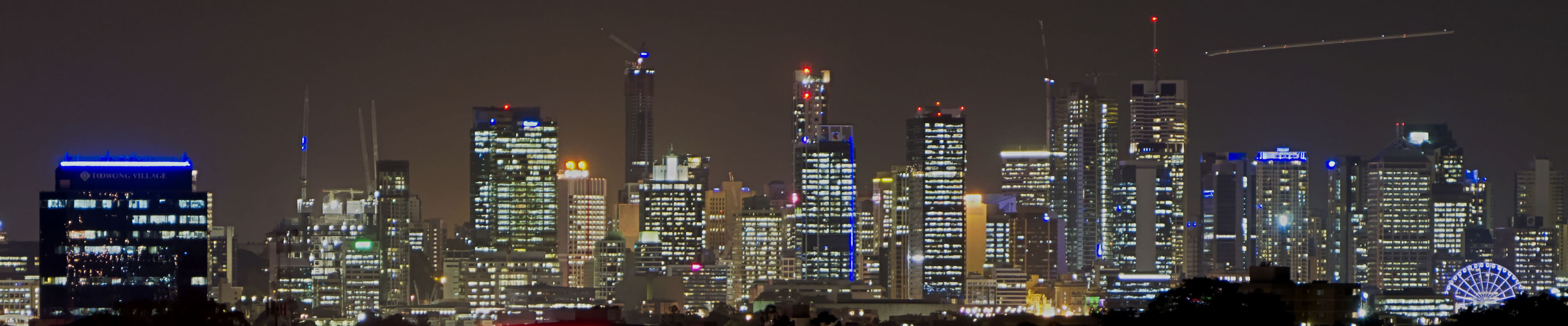 Brisbane Skyline at night.